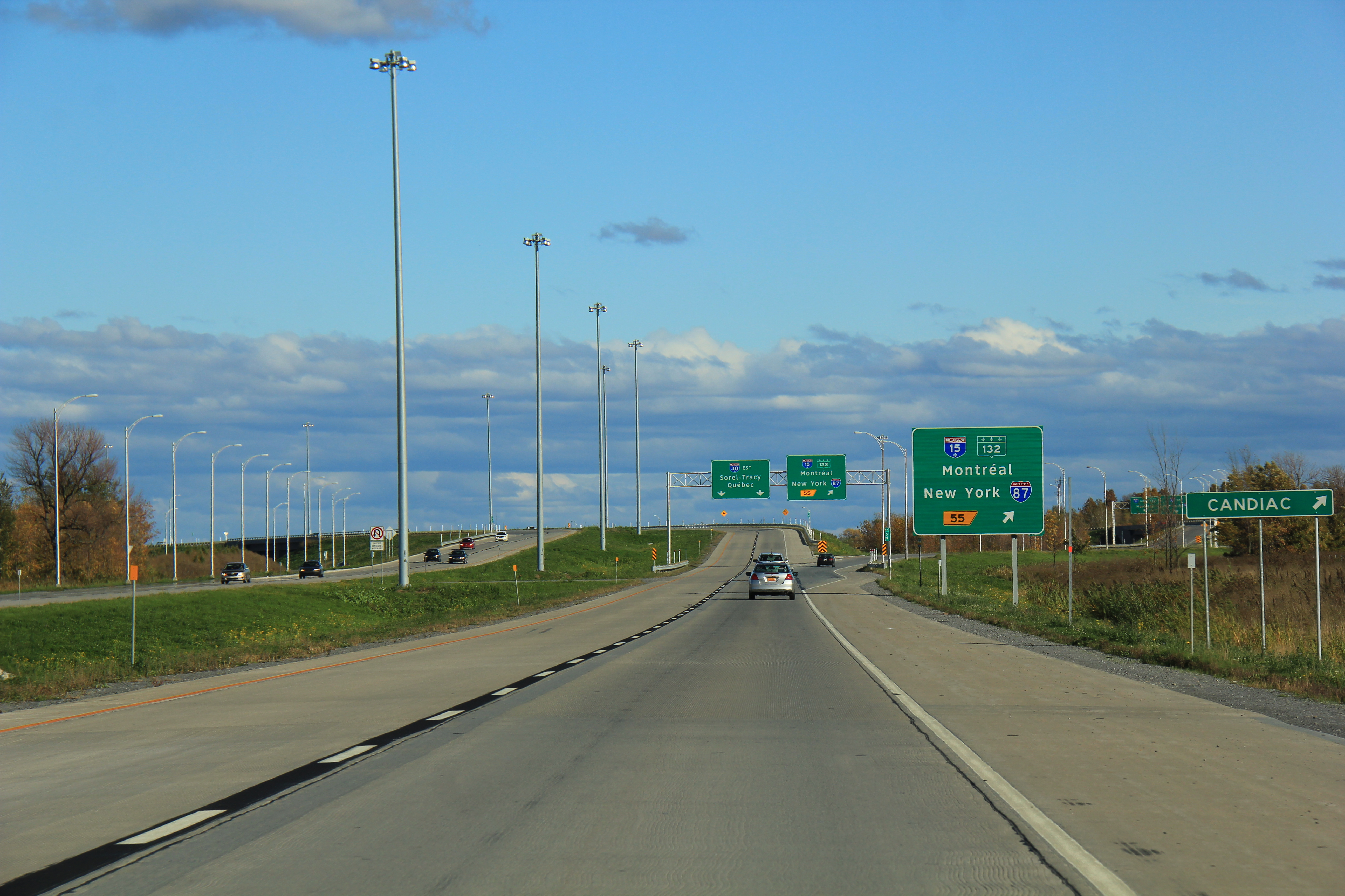 Drivers along eastbound Quebec Autoroute 30 approach the exit for Autoroute 15.